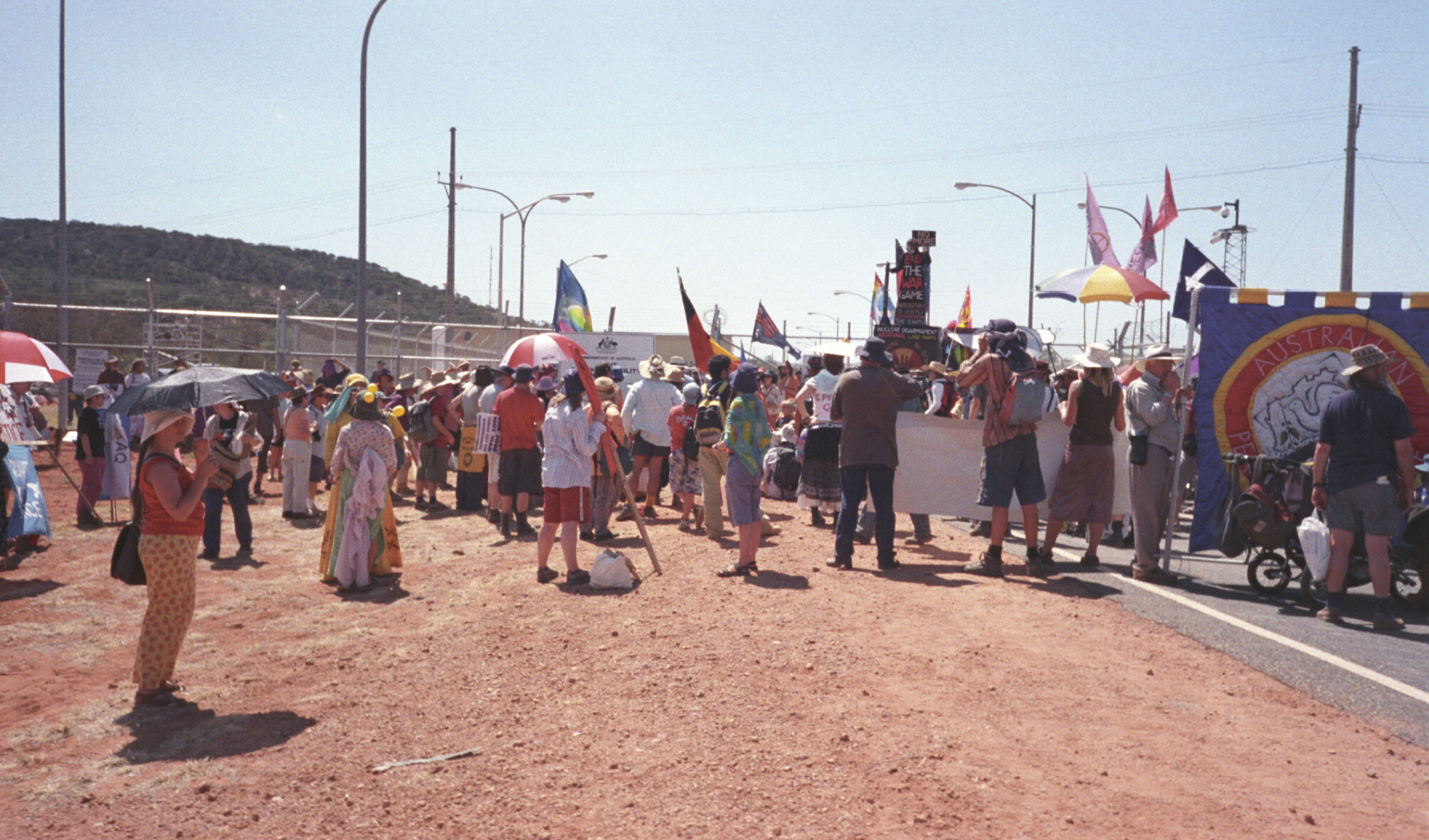 A 2002 protest against violence, at Pine Gap.